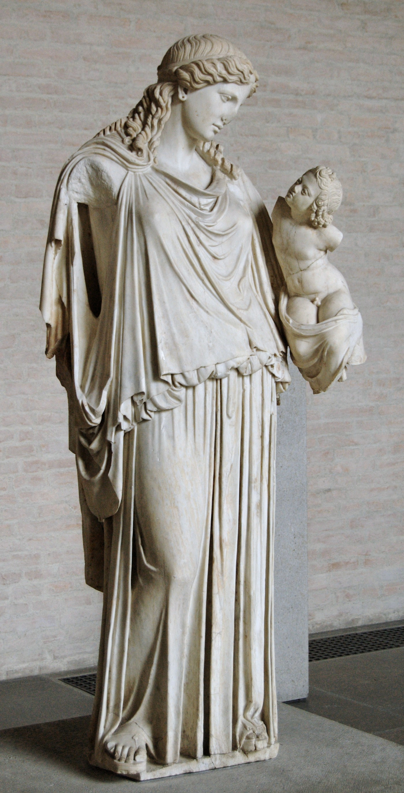 Eirene (Peace) bearing Plutus (Wealth), Roman copy after a Greek votive statue by Kephisodotos (ca. 370 BC) which stood on the agora in Athens.